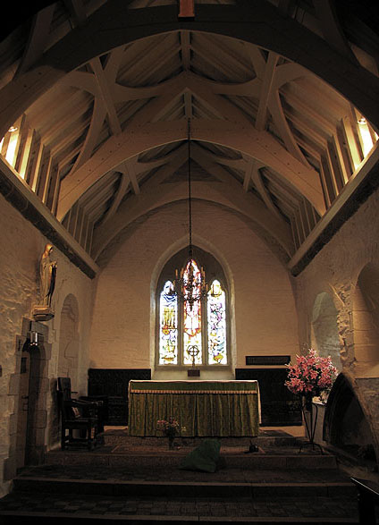 Interior of Church at Tintagel. Taken without a flash or tripod inside the church.